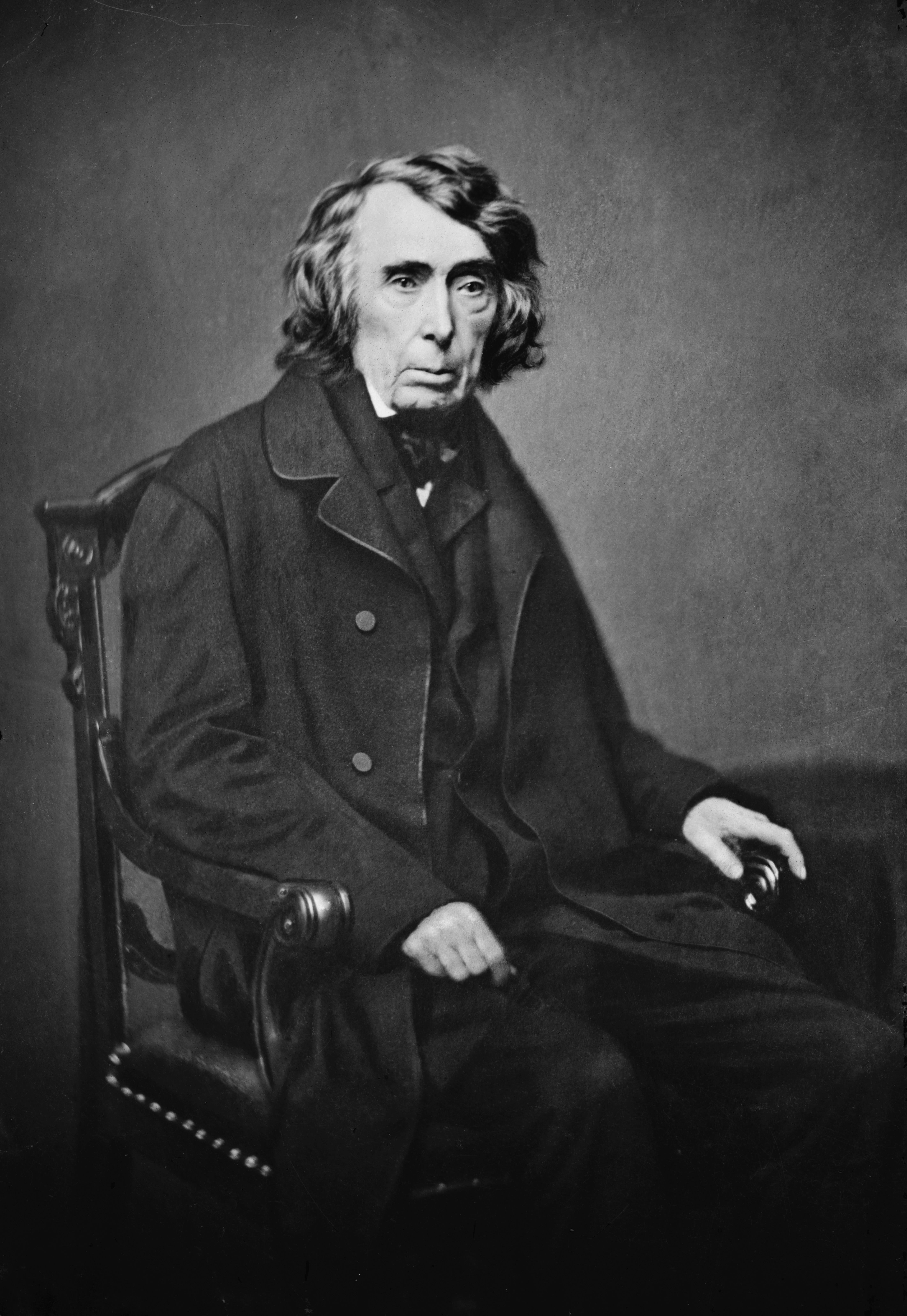 Roger B. Taney. Library of Congress description: "Roger B. Taney".